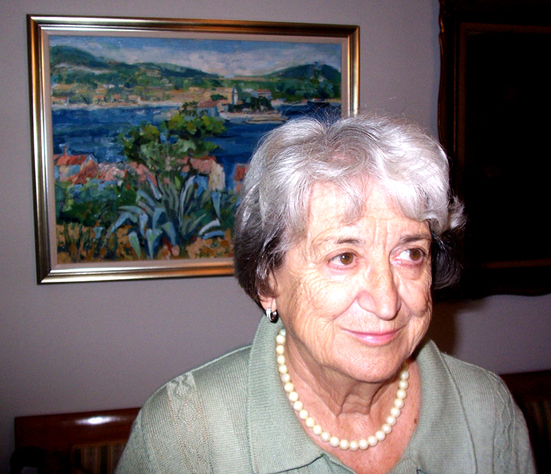 Croatian-Slovene art historian Vesna BučićSlovenščina: Hrvaško-slovenska umetnostna zgodovinarka Vesna Bučić